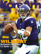 Magazine cover of KoreAm from October 2008, featuring Northwestern Quarterback C.J. Bacher